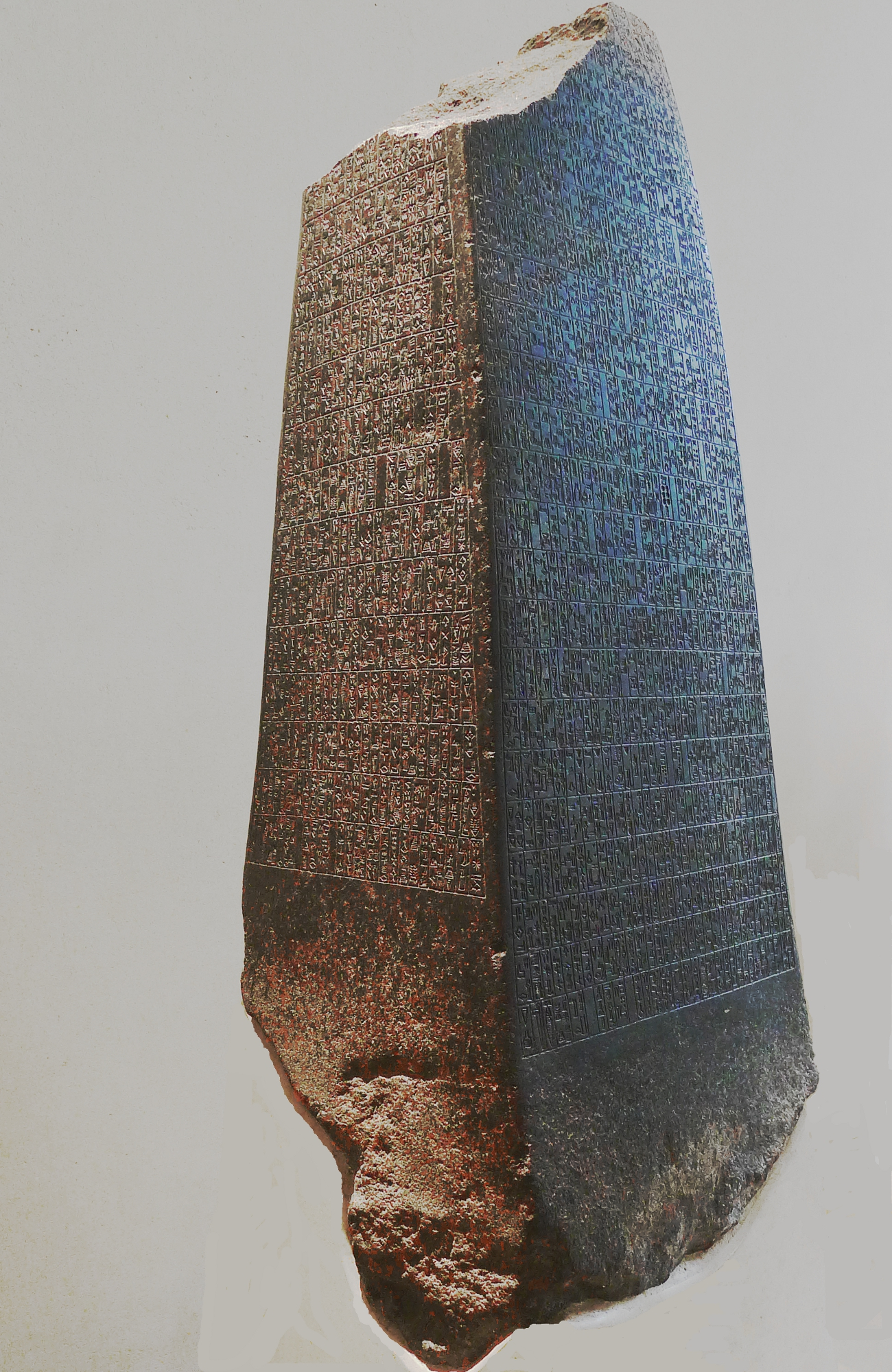 Manishtusu obelisk.